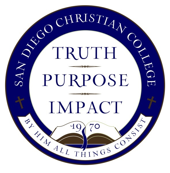 San Diego Christian College school seal